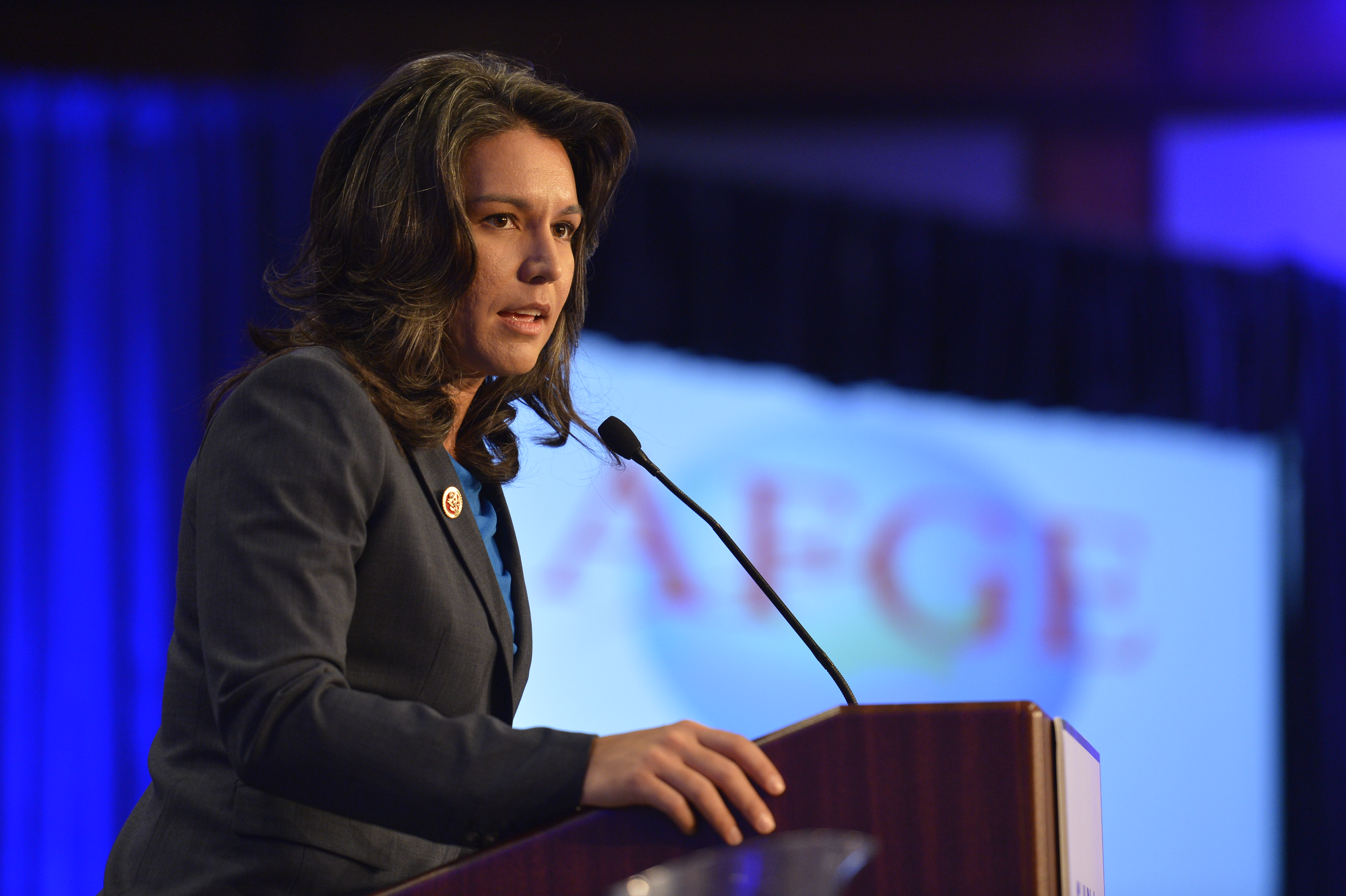 US Representative Tulsi Gabbard (Hawaii, District 2) speaks at the Civil Rights Luncheon of the American Federation of Government Employees' 2013 Legislative Conference, hosted by the Women's and Fair Practices Departments.